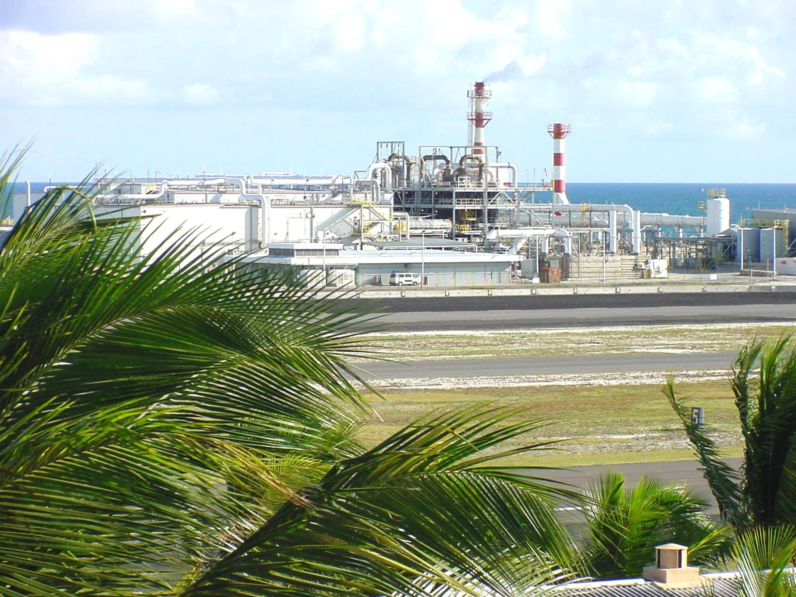 JACADS just prior to demolition